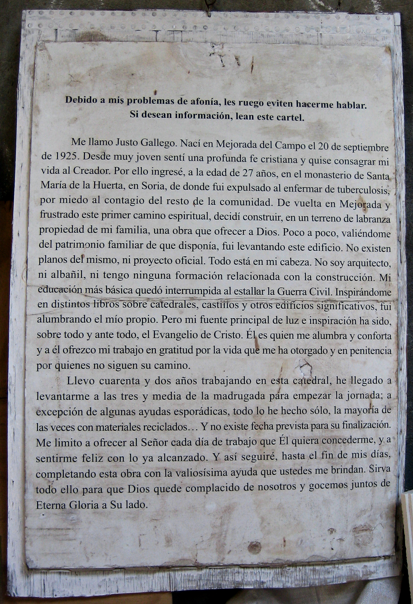 Cartel con texto de Justo Gallego, en su Catedral de Mejorada del Campo, España